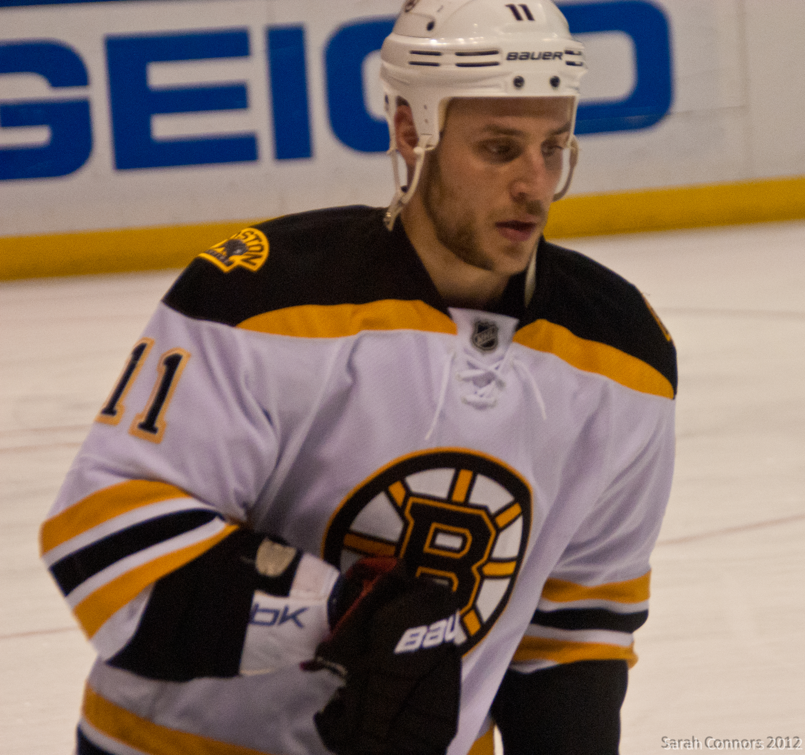 Gregory Campbell of the Boston Bruins